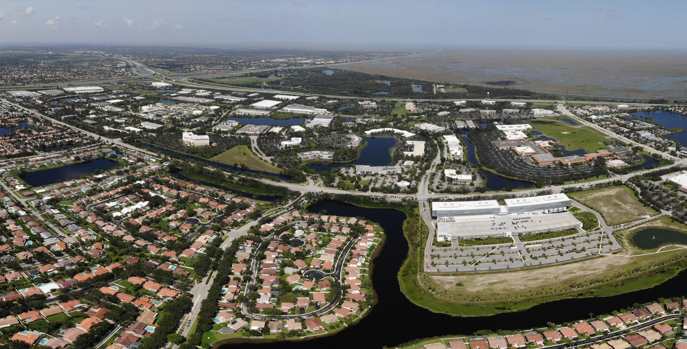 Panoramic aerial view of Sawgrass Corporate Parkway in Sunrise, FL and American Express. The Everglades are also shown in the back and a residential area before the Parkway.